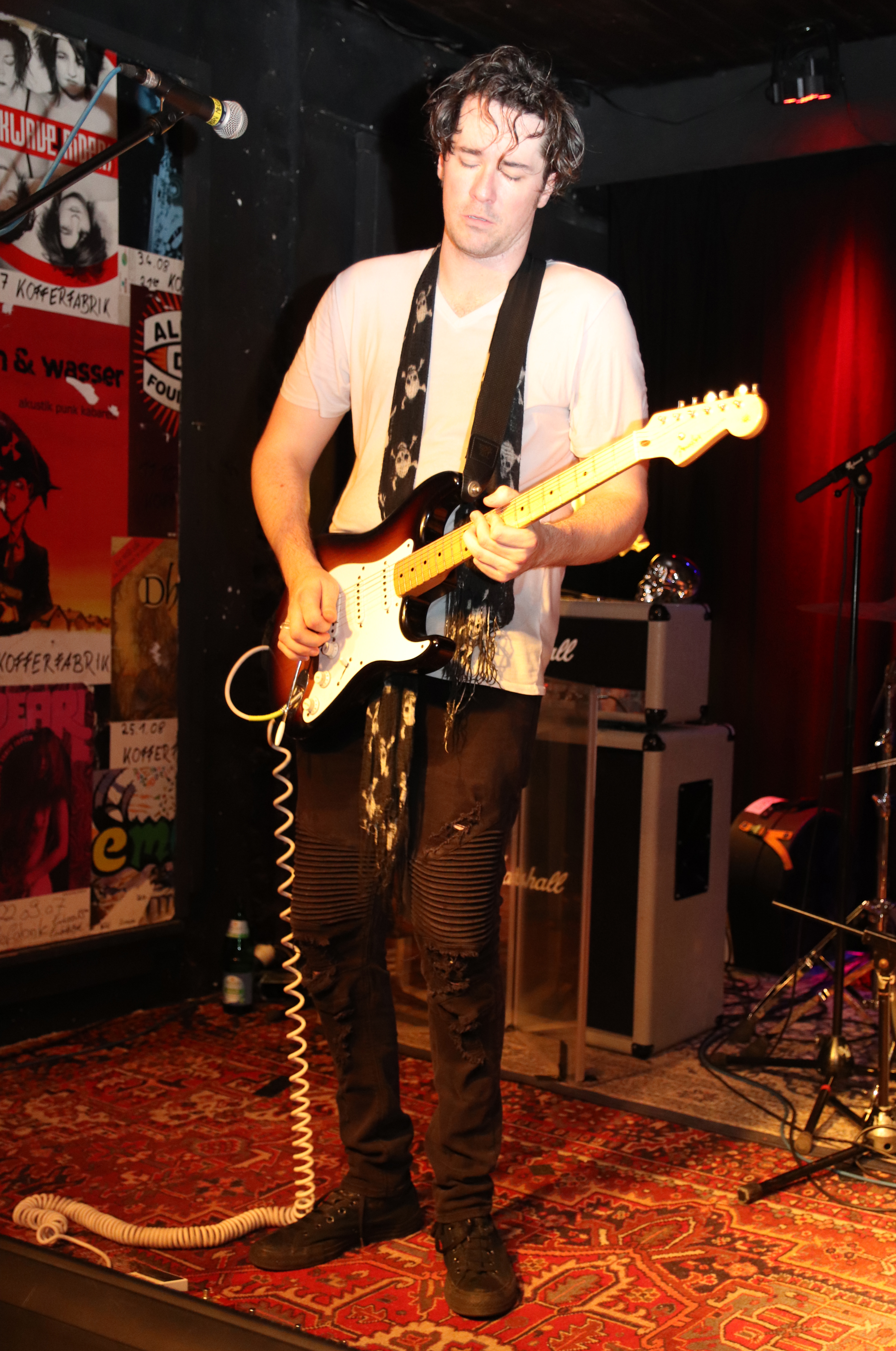 Ryan Mcgarvey bei einem Konzert in der Kofferfabrik (Fürth)